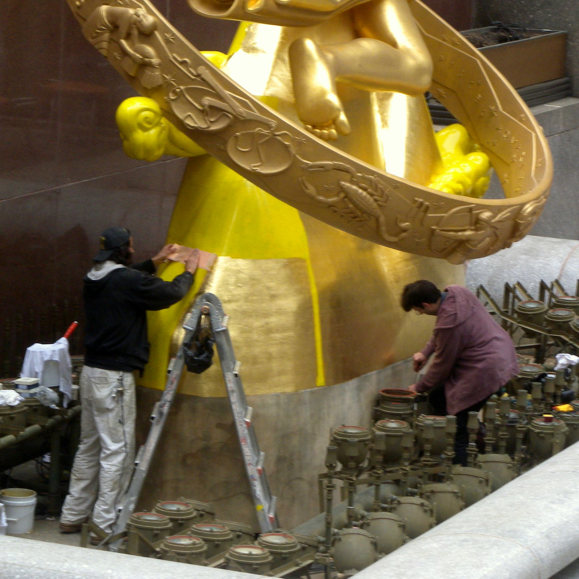 Looking north at gilders at work.